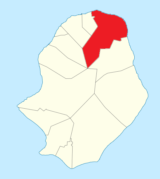 Location map for Mutalau, Niue. Based on file:Niue location map.svg.